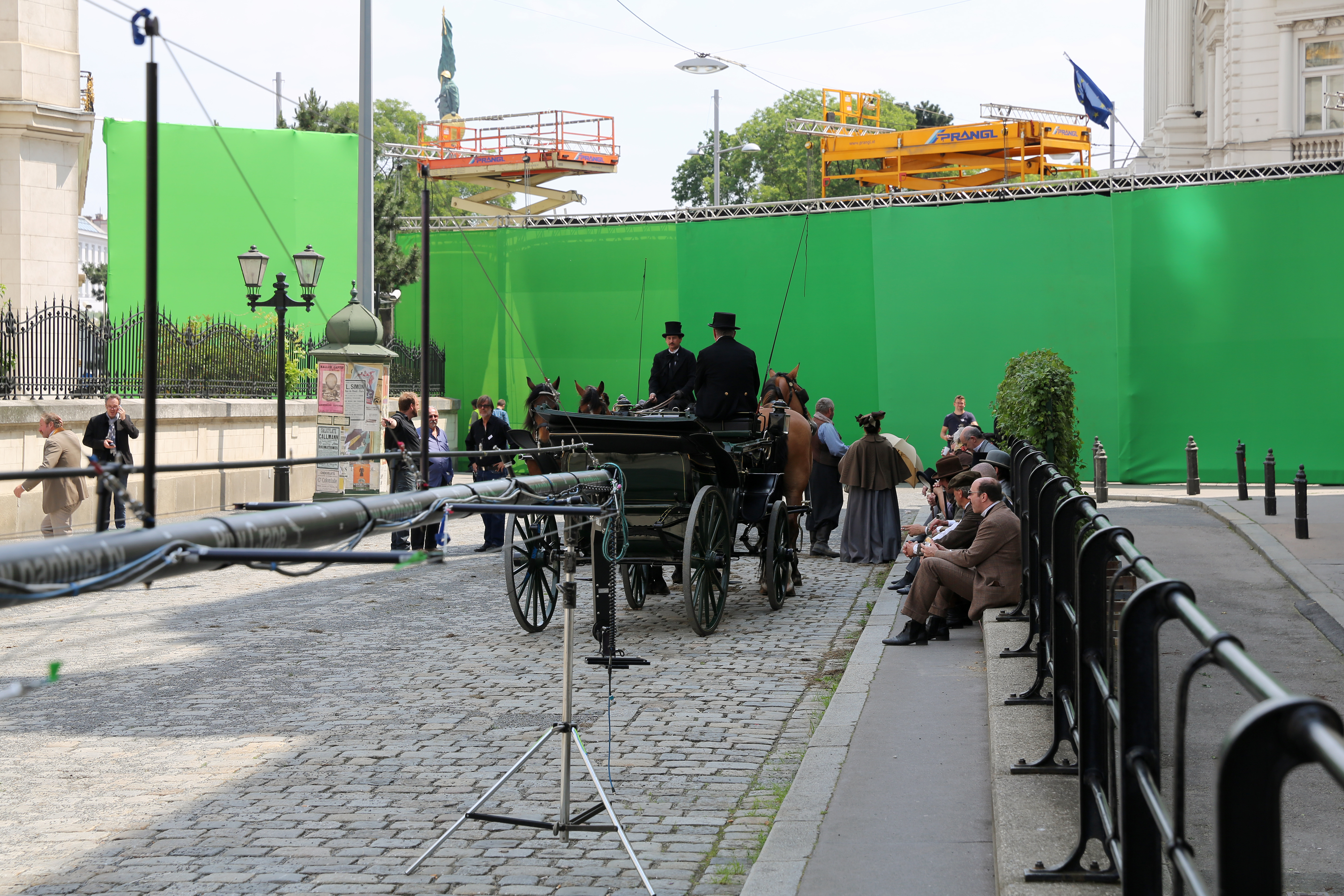 Filming of the movie Madame Nobel in and around the Embassy of France in Vienna (Vienna, Austria).